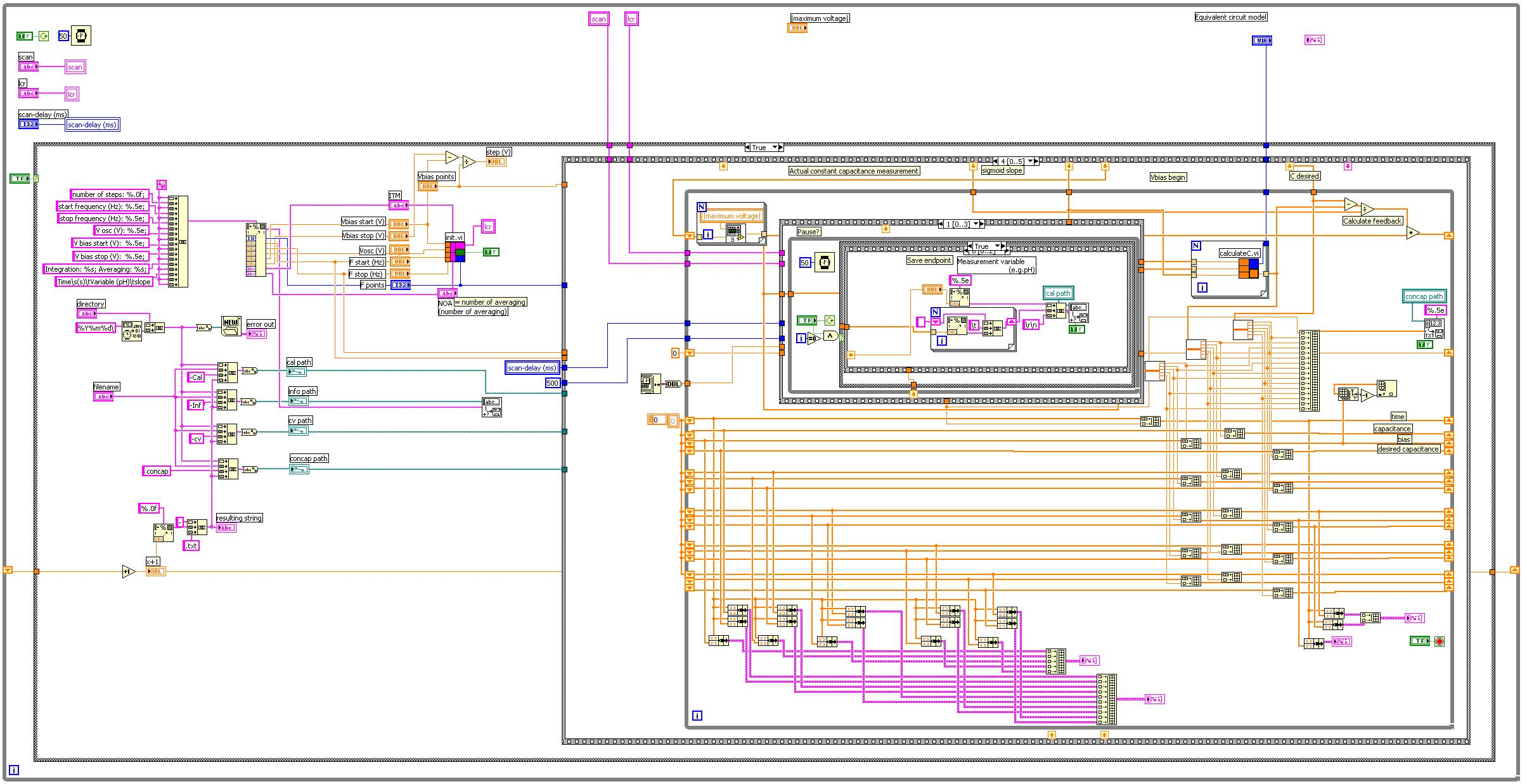 example of LabVIEW 7.1 Block diagram